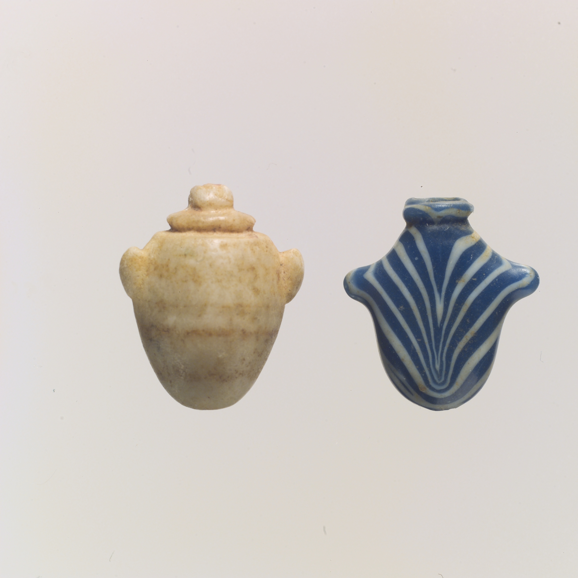 Amulet, Heart